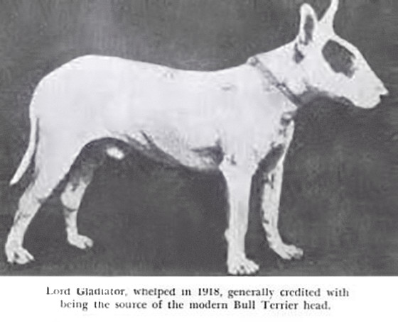 Lord Gladiator, whelped in 1918, generally credited with being the source of the modern English Bull Terrier head. Male. Date of birth: 4 September, 1917. United Kingdom. Online pedigree